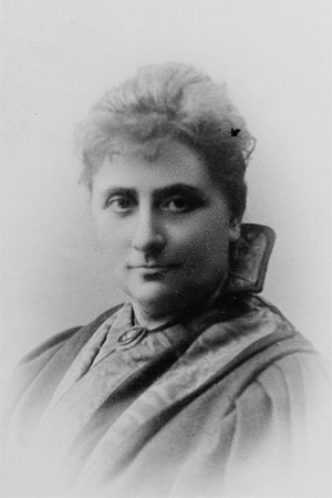 Norwegian feminist, head-and-shoulders portrait, facing front